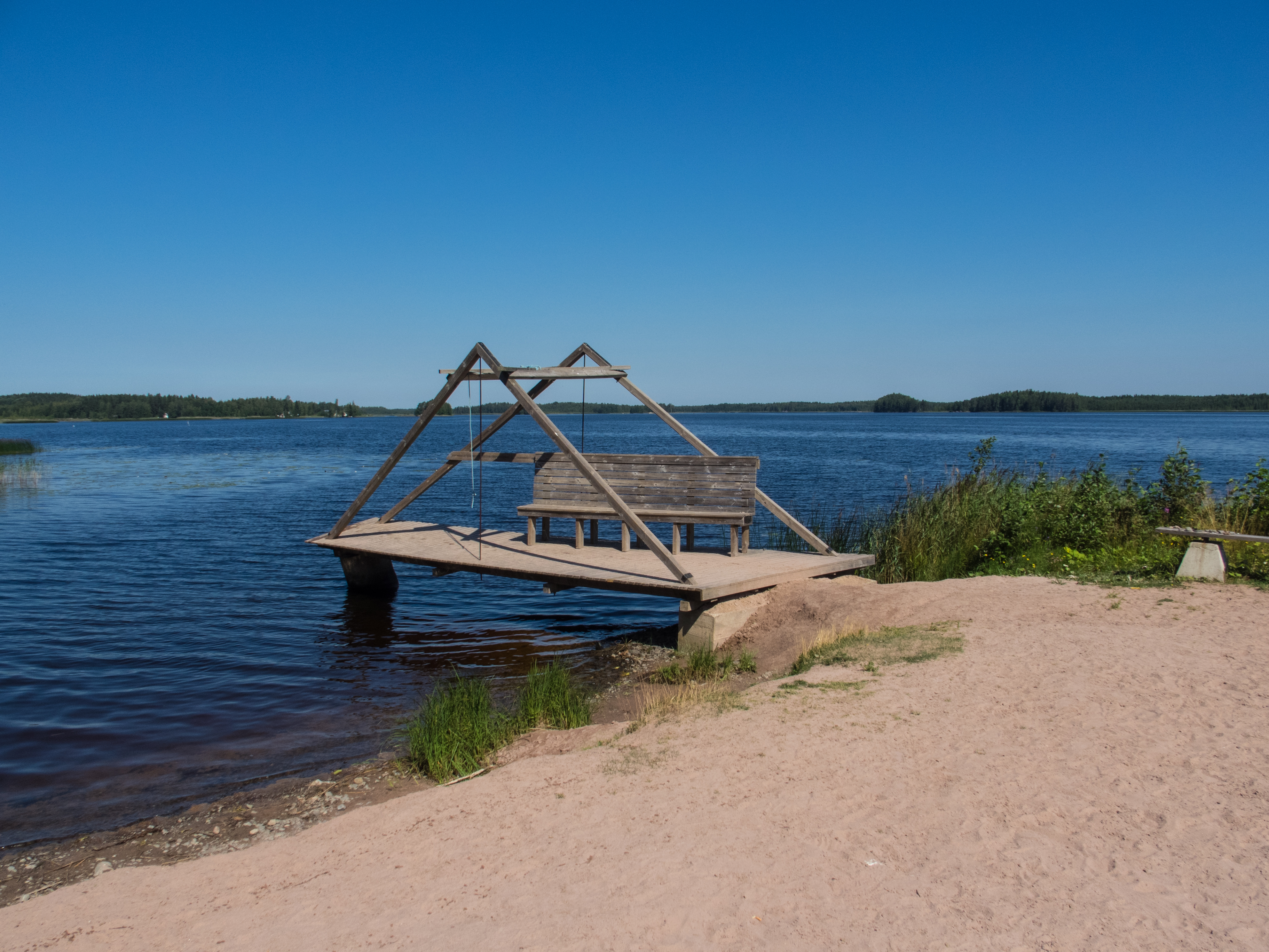 Palusjärvi beach, Palus village, Ulvila, Finland